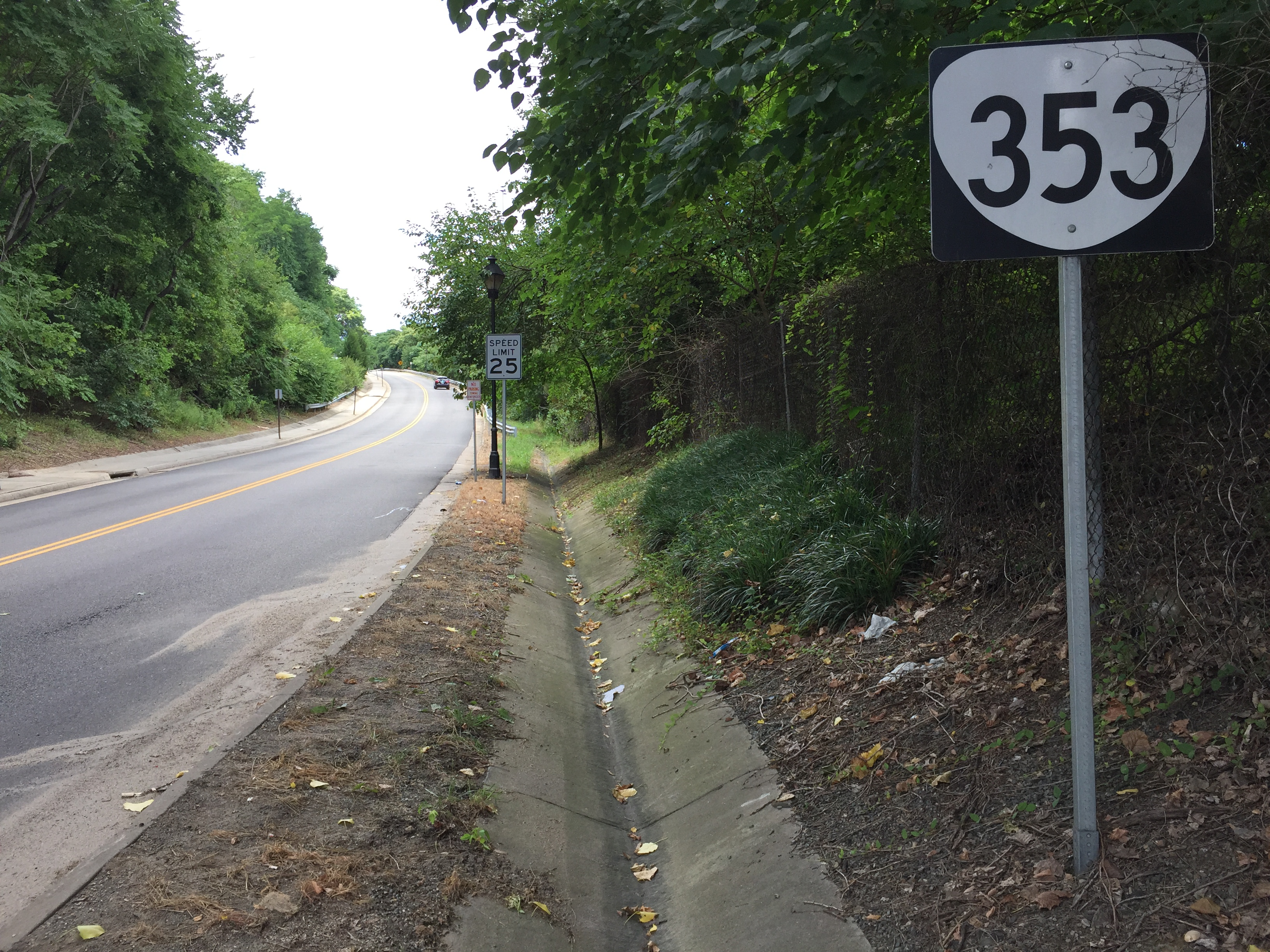 View north along Virginia State Route 353 (Duval Street Connector) at 13th Street in Richmond, Virginia